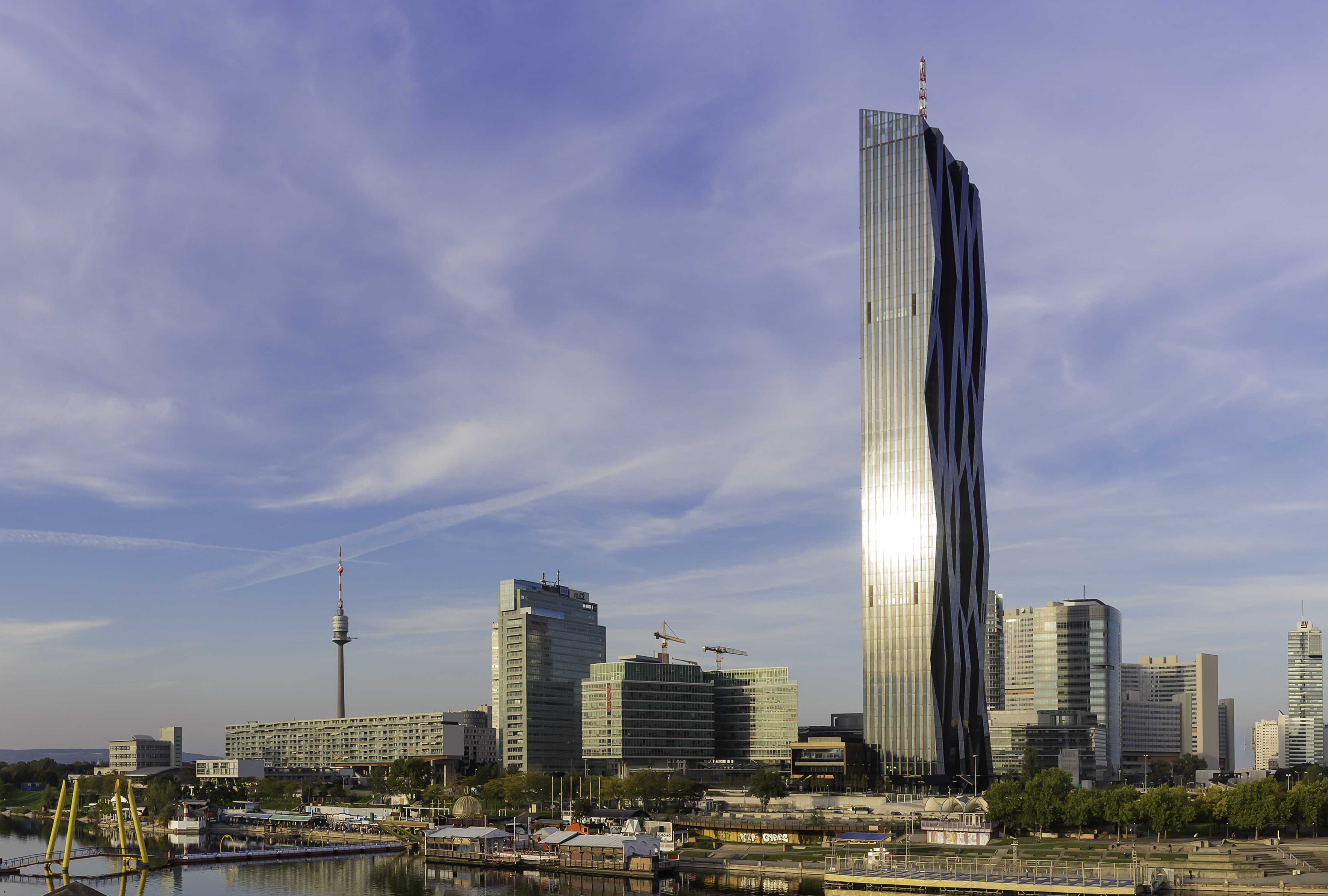 DC-Tower 1, Kaisermühlen - Donaucity, Sunken City - Donauinsel - Copa Cagrana - Reichsbrücke, Vienna